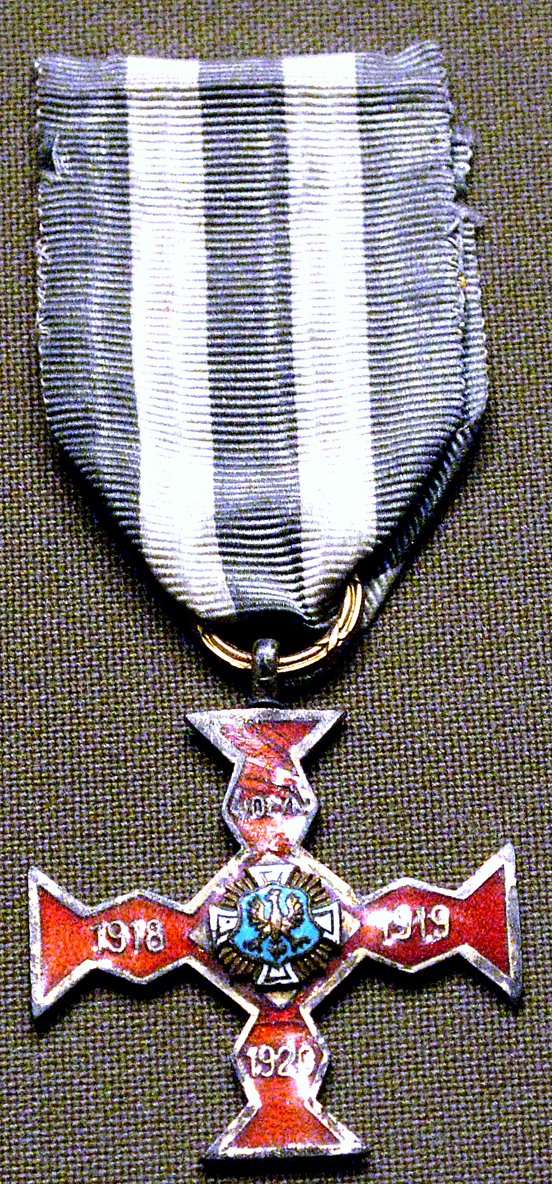 Cross of Wolhynia